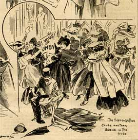 Suffragettes invade Central Lobby, House of Commons, London, 13 February 1907